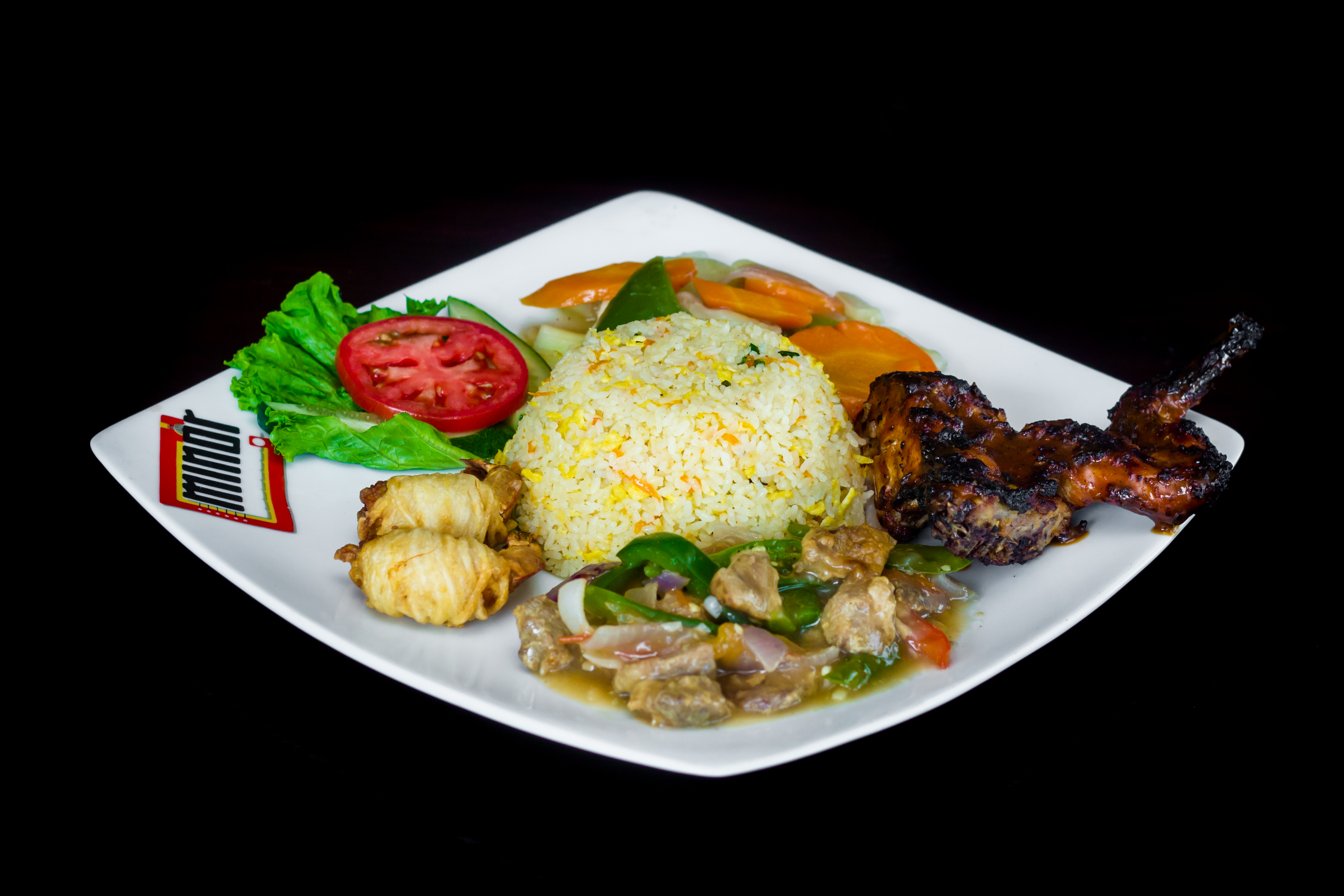 Fried Rice and Chicken, C Minor Music Cafe